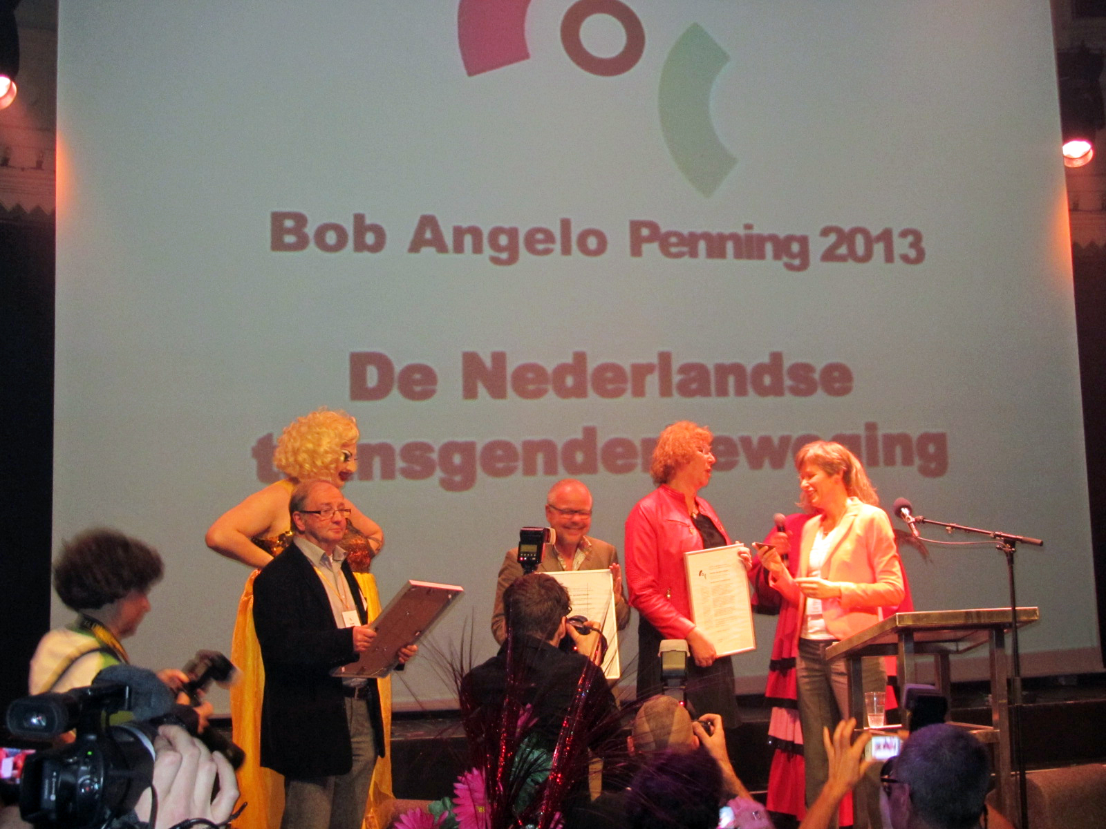 Bob Angelo Award 2013 of the Dutch gay rights organisation COC